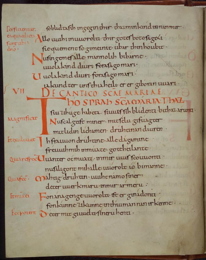 Otfrids Evangelienbuch, Manuscript P (Heidelberg, Universitätsbibl., Cpl 52), page 19verso